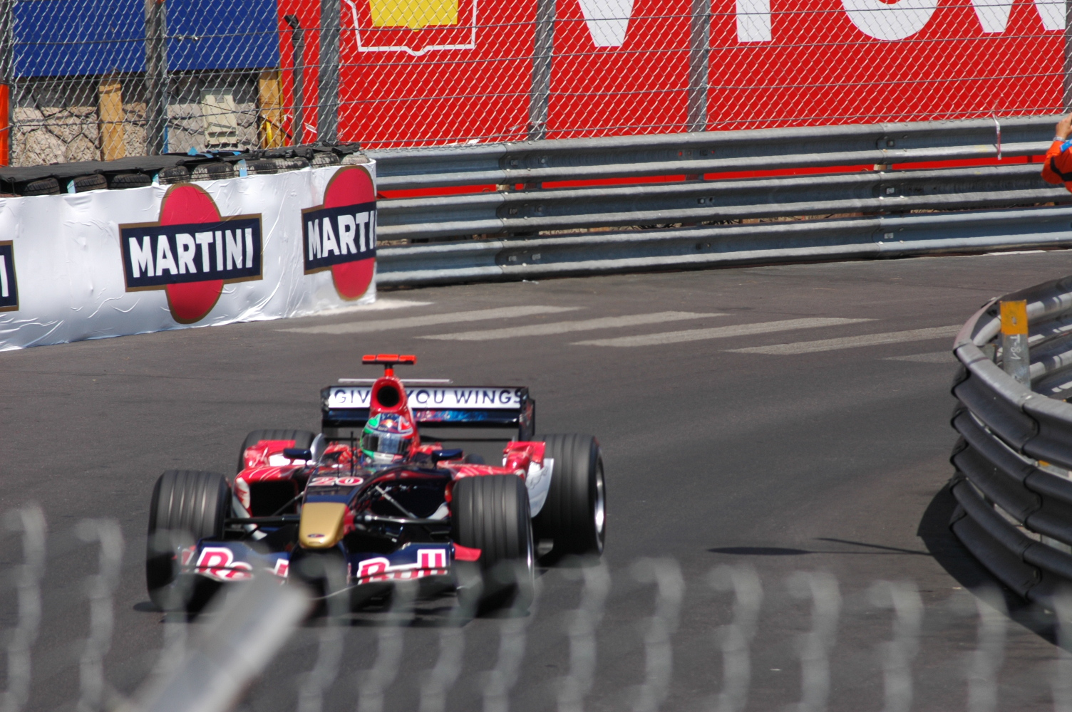 Vitantonio Liuzzi Scuderia Toro Rosso STR01 (2006) during the formation lap for the 2006 Monaco Grand Prix